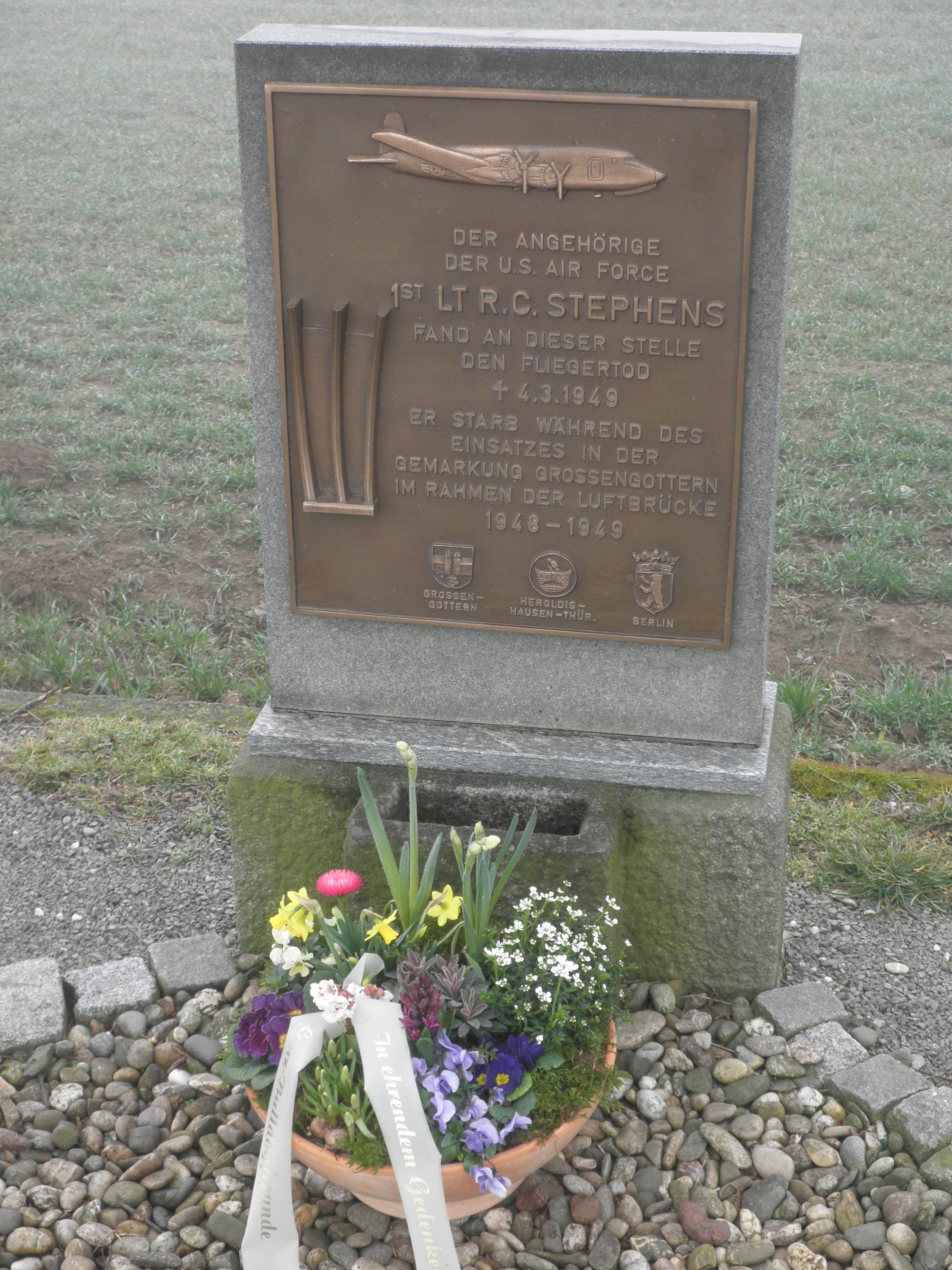 Monument for an US Pilot died 1949 near Großengottern in Thuringia